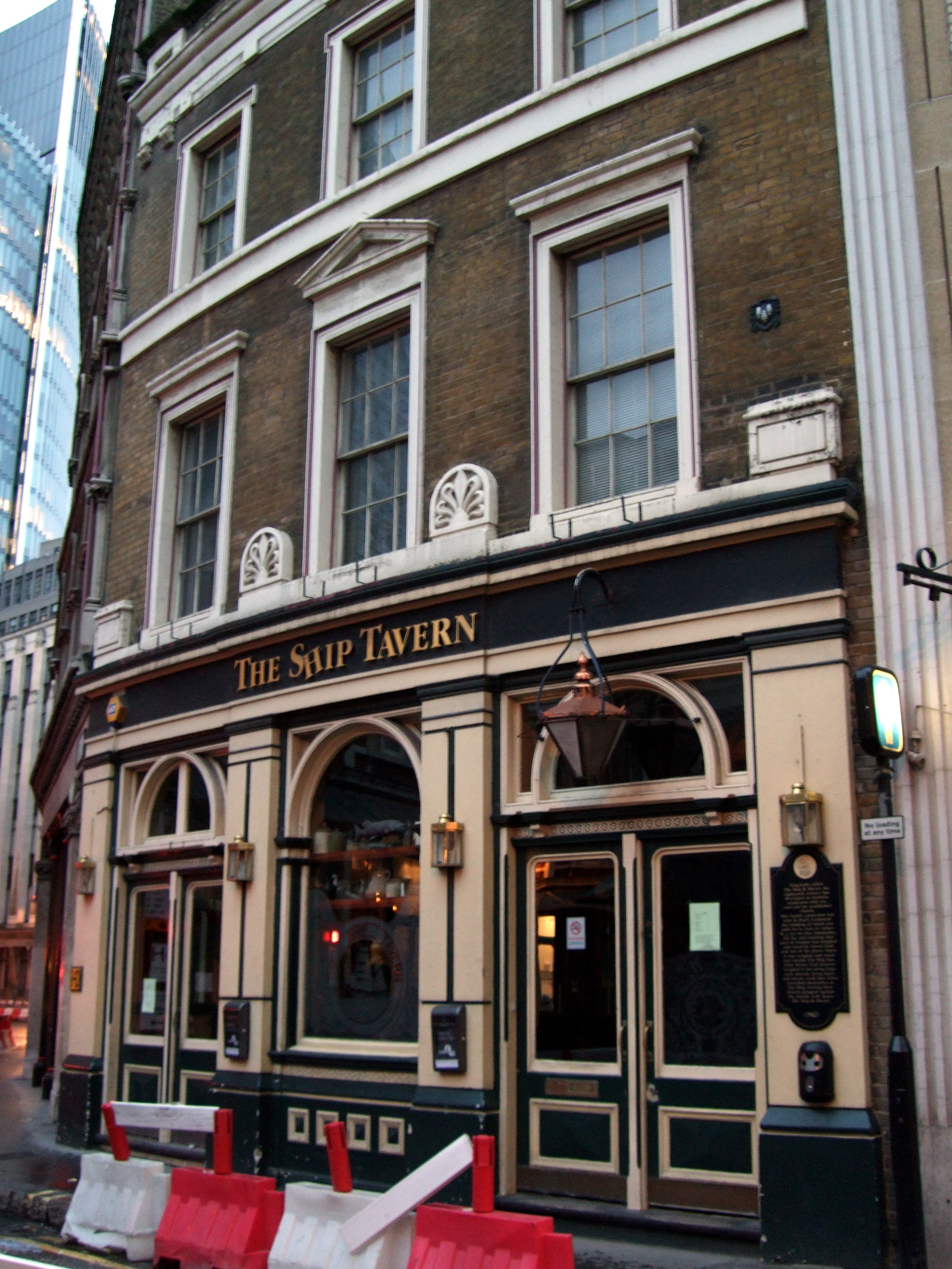 Looks like a regular pub, but it's actually in the basement. In any case, it's now closed as of mid-2010. Address: 27 Lime Street. Owner: Truman Hanbury Buxton (former). Links: Fancyapint Pubs Galore Beer in the Evening Dead Pubs (history)